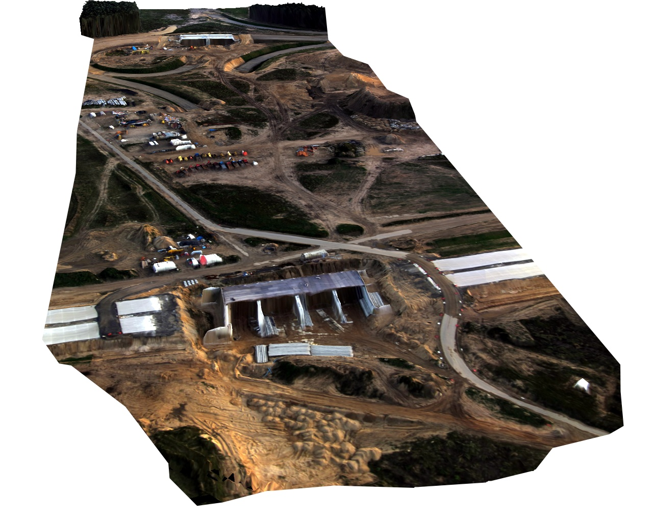 Digital Surface Model of motorway construction site obtained from aerial photoset using Pteryx UAV